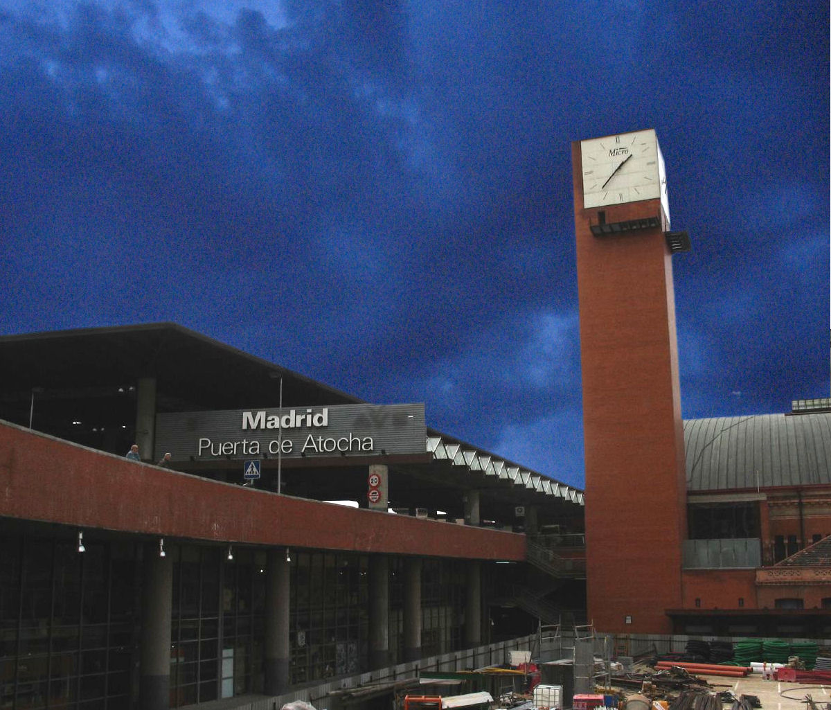 Modern façada of Atocha Station, with the famous clock